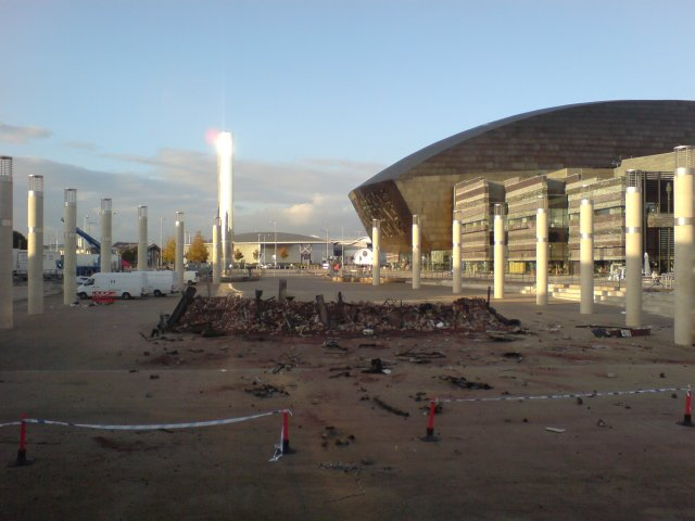 Litter trouble in Cardiff...